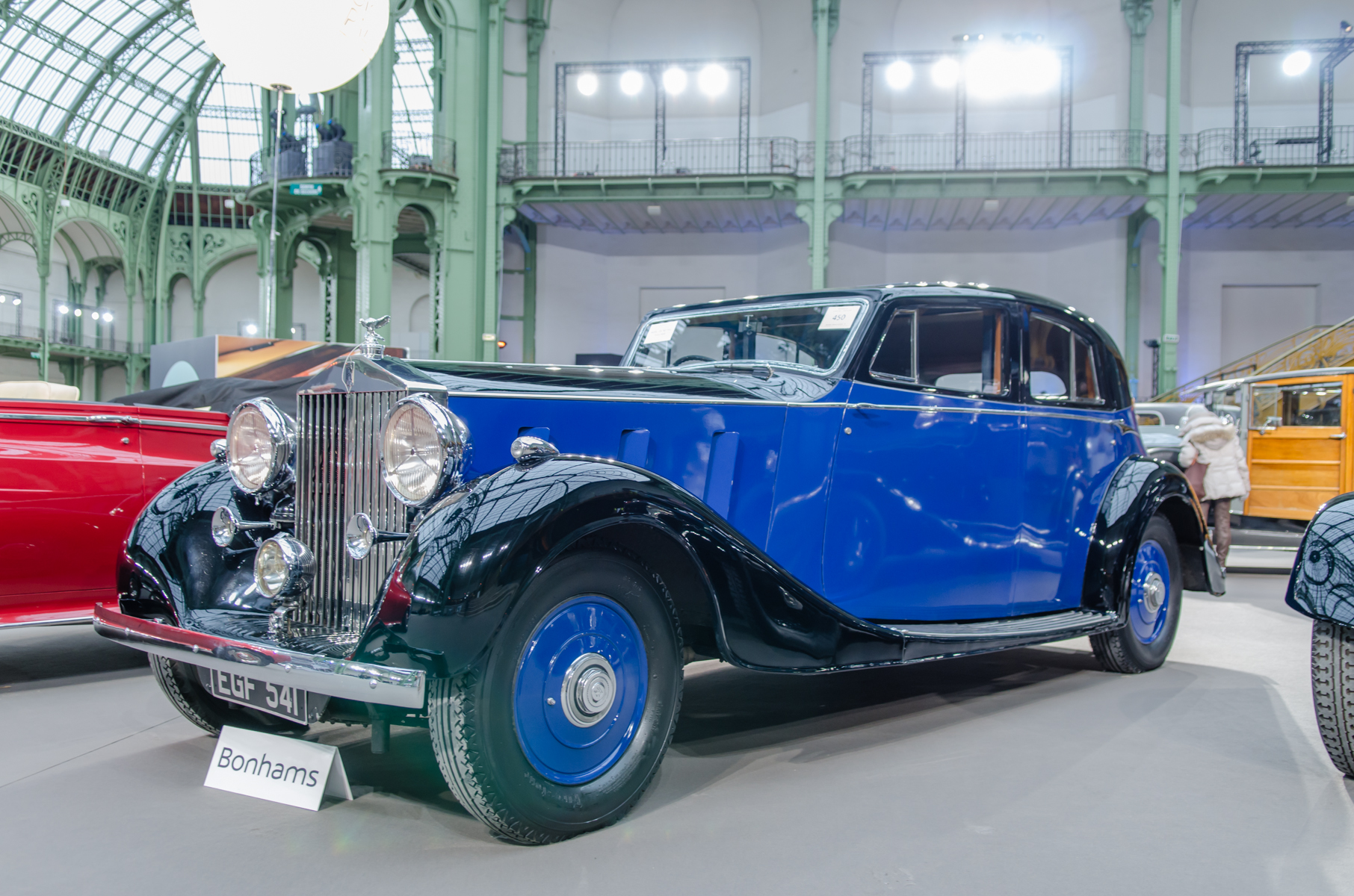 1937 Rolls-Royce Phantom III limousine Carrosserie Arthur Mulliner Châssis n° 3BT139 Moteur n° E78X